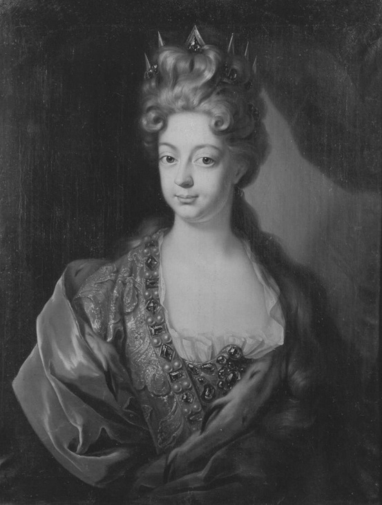 Portrait of Wilhelmine Amalia of Brunswick-Lüneburg (1673-1742)